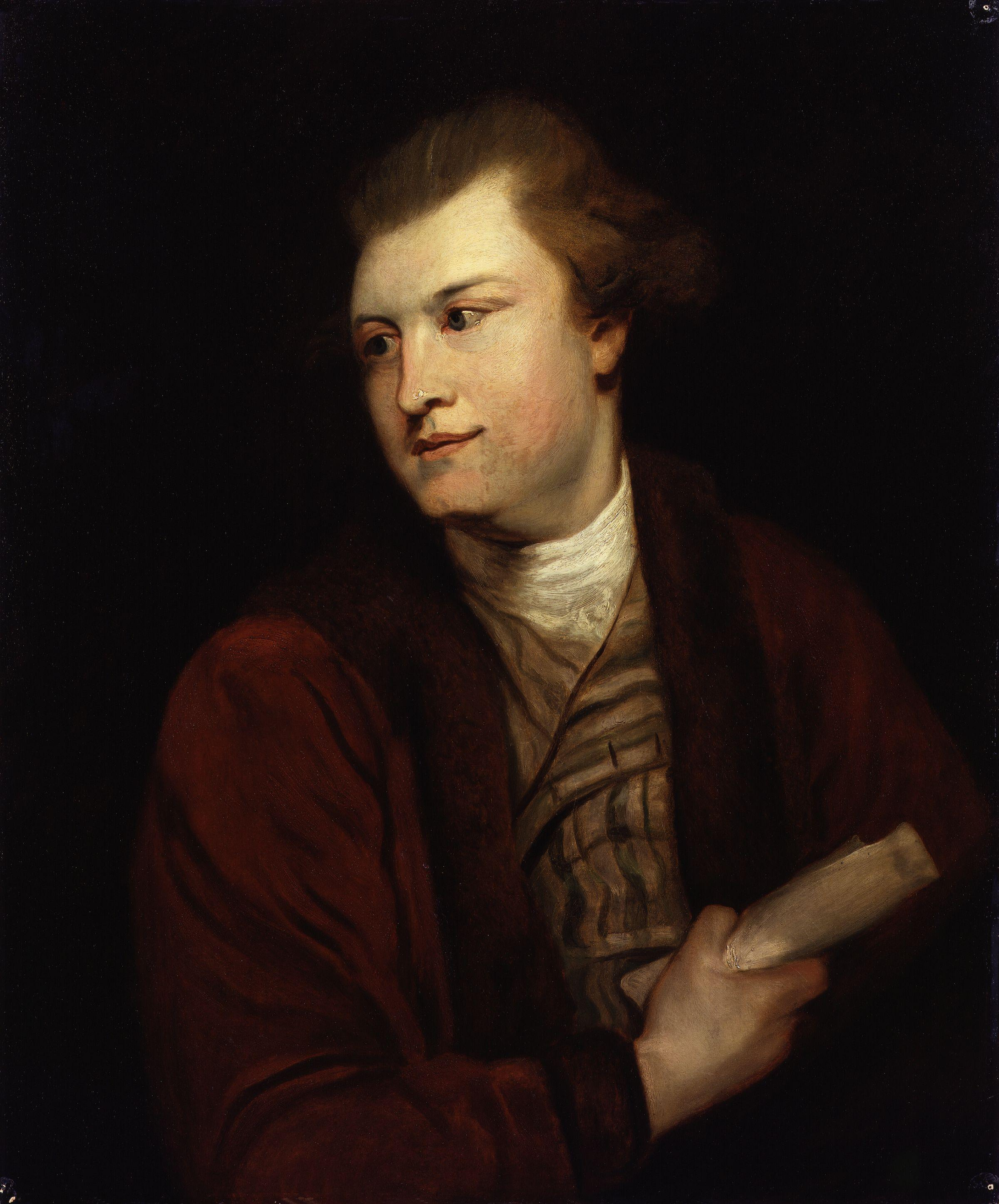 James Macpherson, by Sir Joshua Reynolds (died 1792), given to the National Portrait Gallery, London in 1895. All images in this batch have been confirmed as author died before 1939 according to the official death date listed by the NPG.